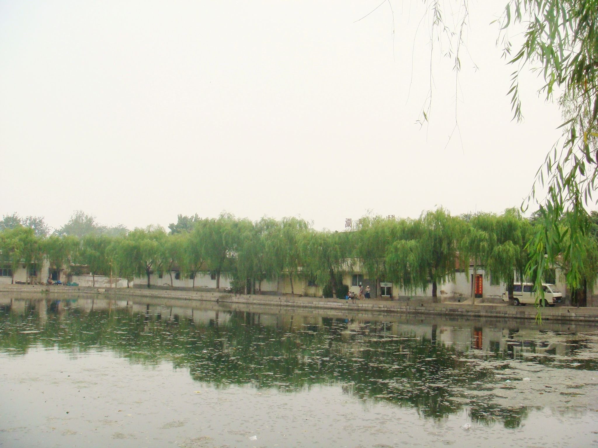 Hundred Flower Pond of Jinan in summer.